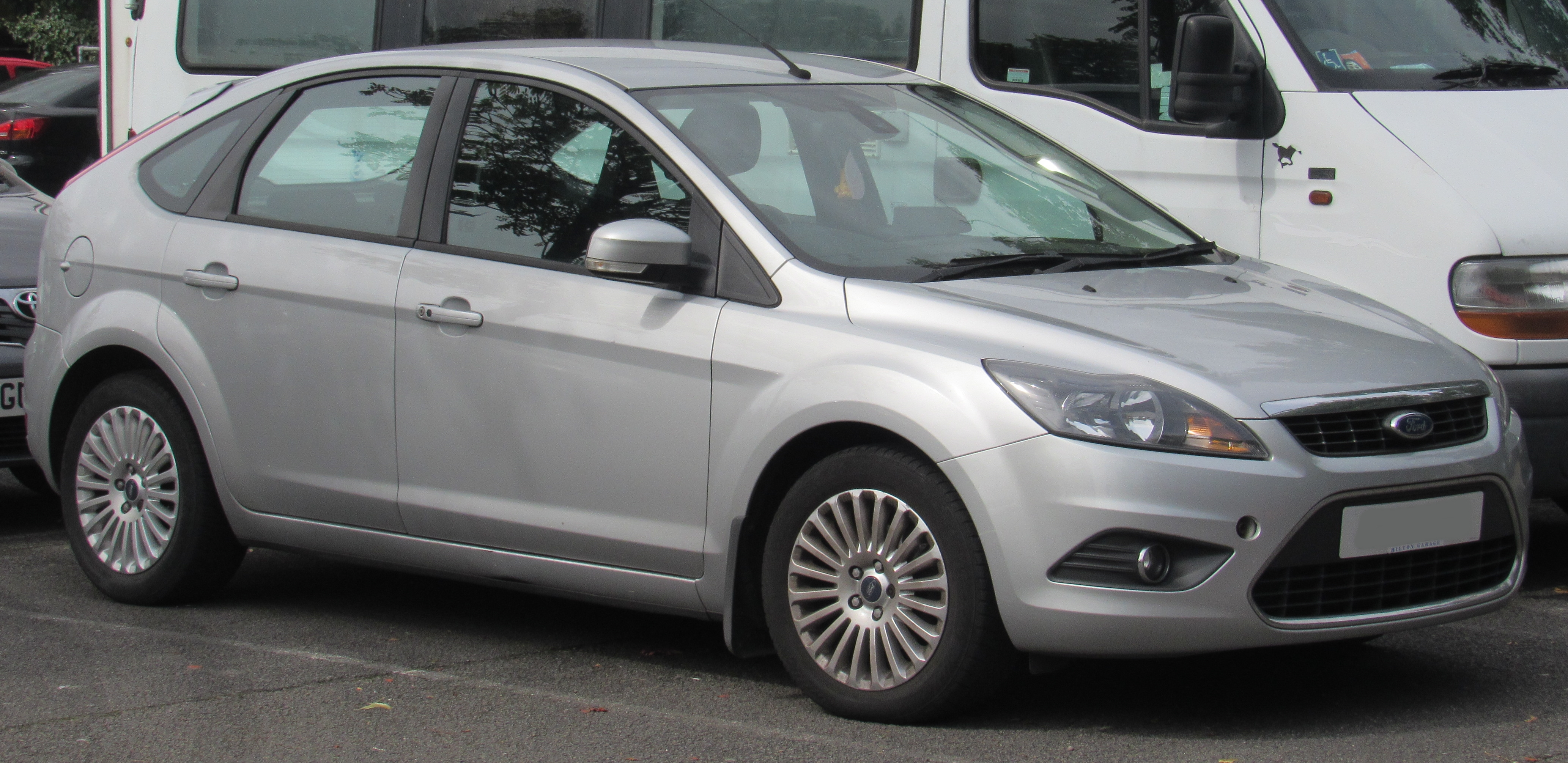 2010 Ford Focus Titanium TDCi 109 1.6 Taken in Leamington Spa